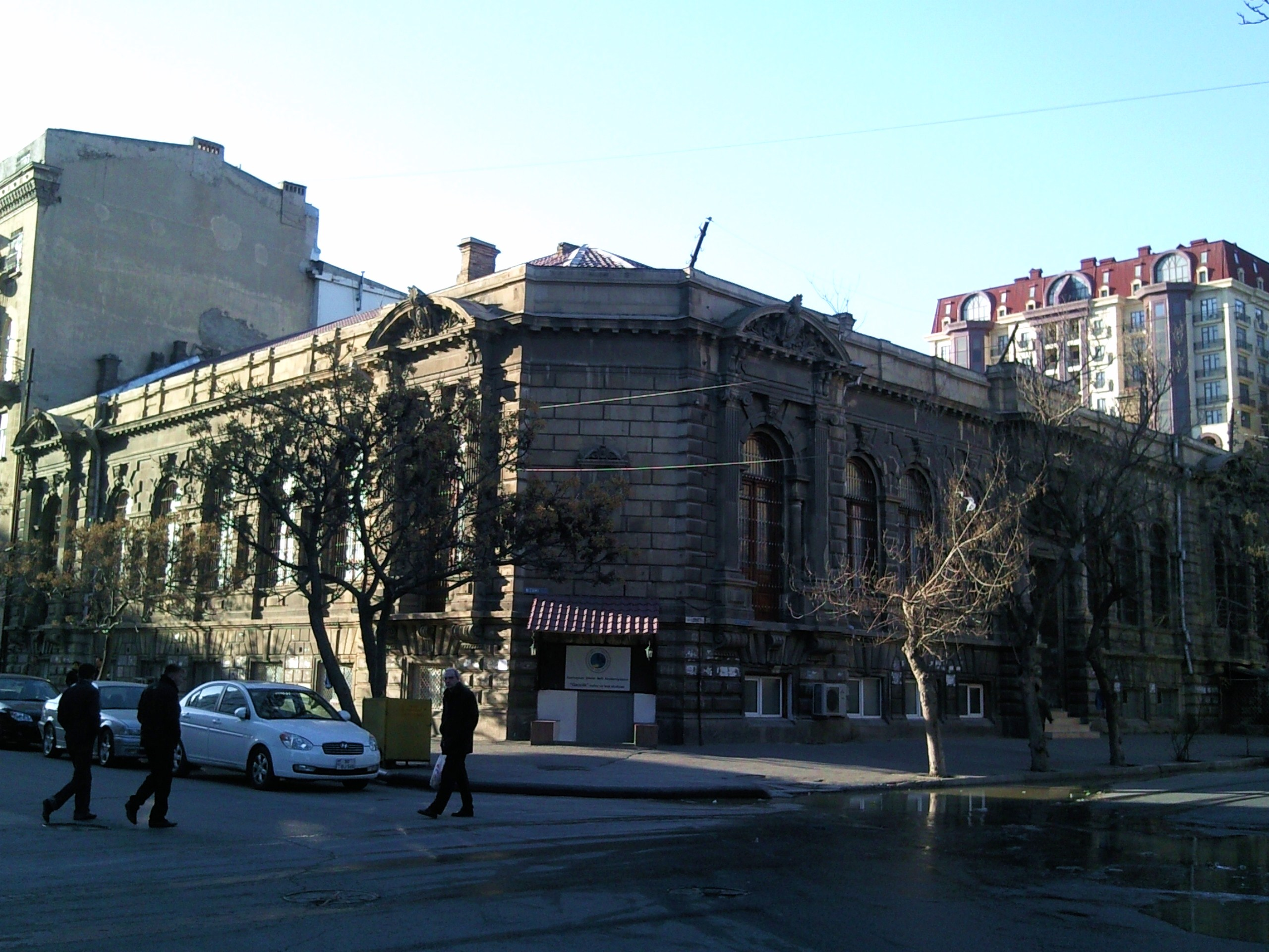 Nizami street 115 in Baku.